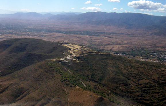 Aerial view of Monte Alban, taken from a passenger jet departing Oaxaca. Please observe license and properly cite in use outside Wikipedia. This photo was moved from english Wikipedia. It was taken from the Monte Albán article of that wikipedia.